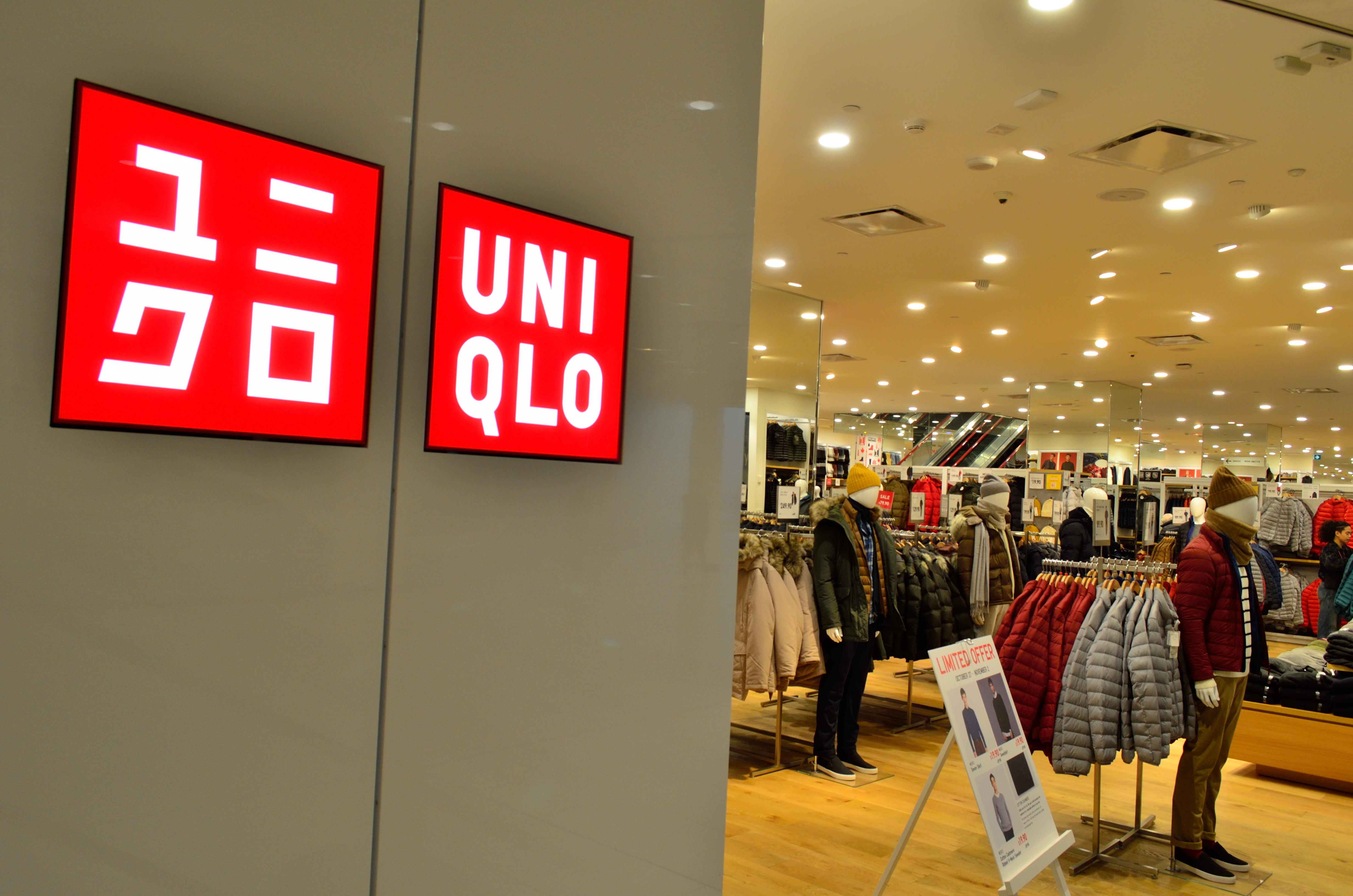 UNIQLO at Toronto Eaton Center